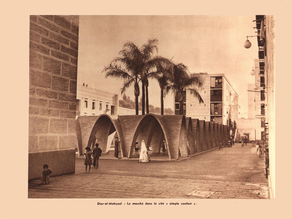 Originally published in "alger d'hier et d'aujourd'hui" (1957)